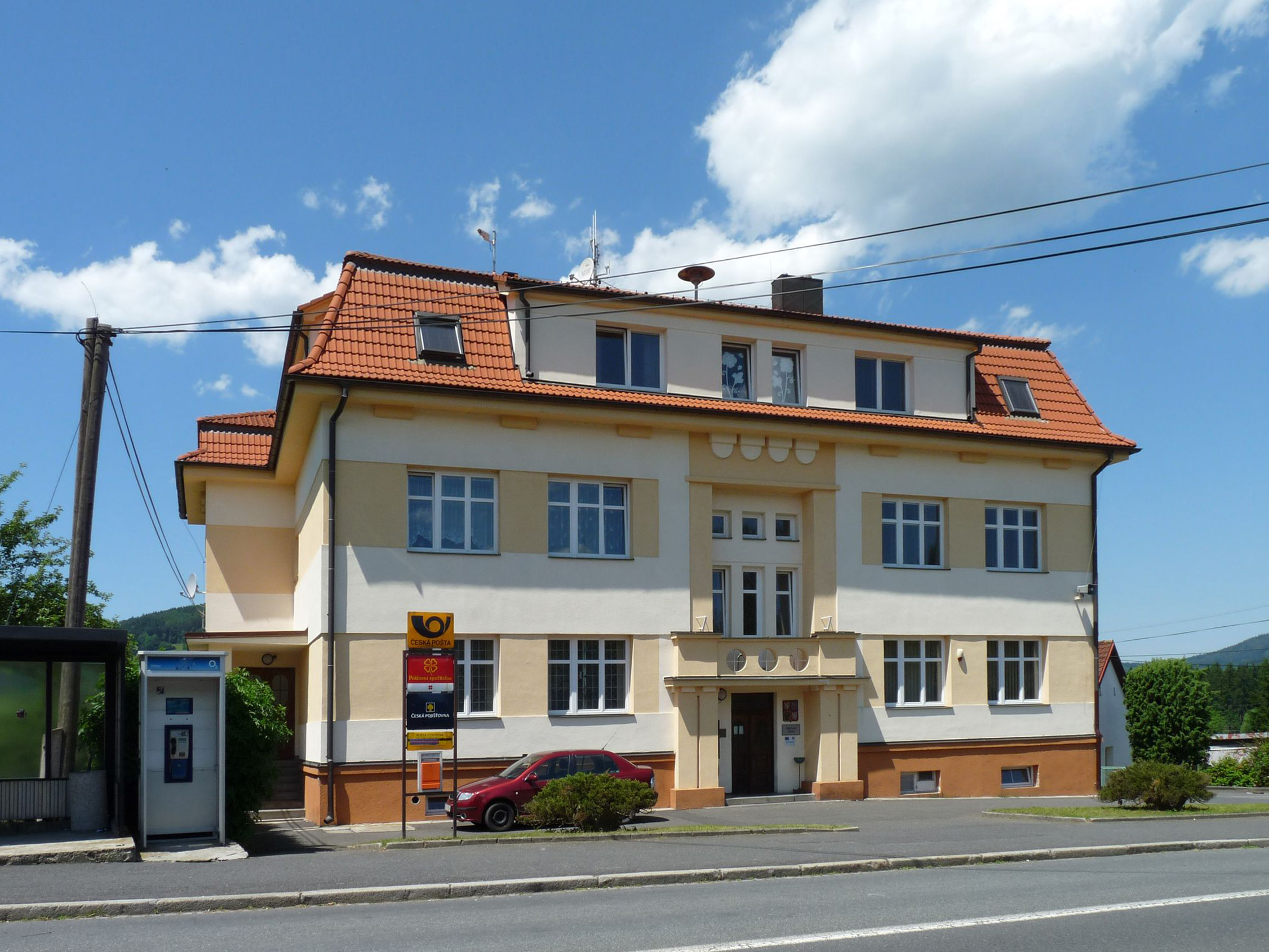 Municipal office building in the village of Dlouhá Ves, Klatovy District, Plzeň Region, Czech Republic.